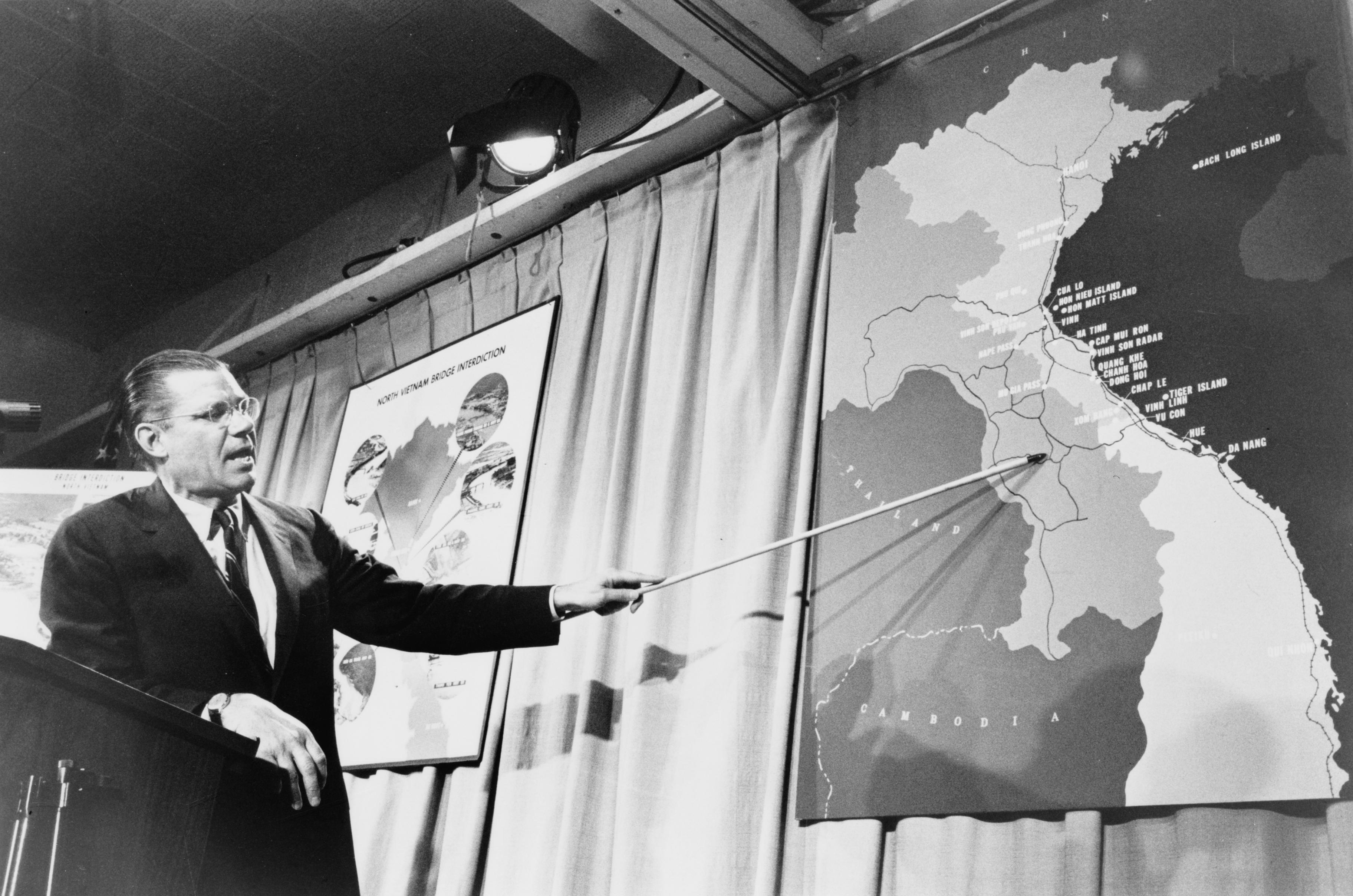 Secretary of Defense Robert McNamera pointing to a map of Vietnam at a press conference.